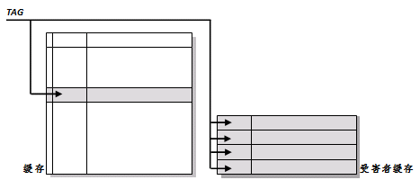 受害者缓存